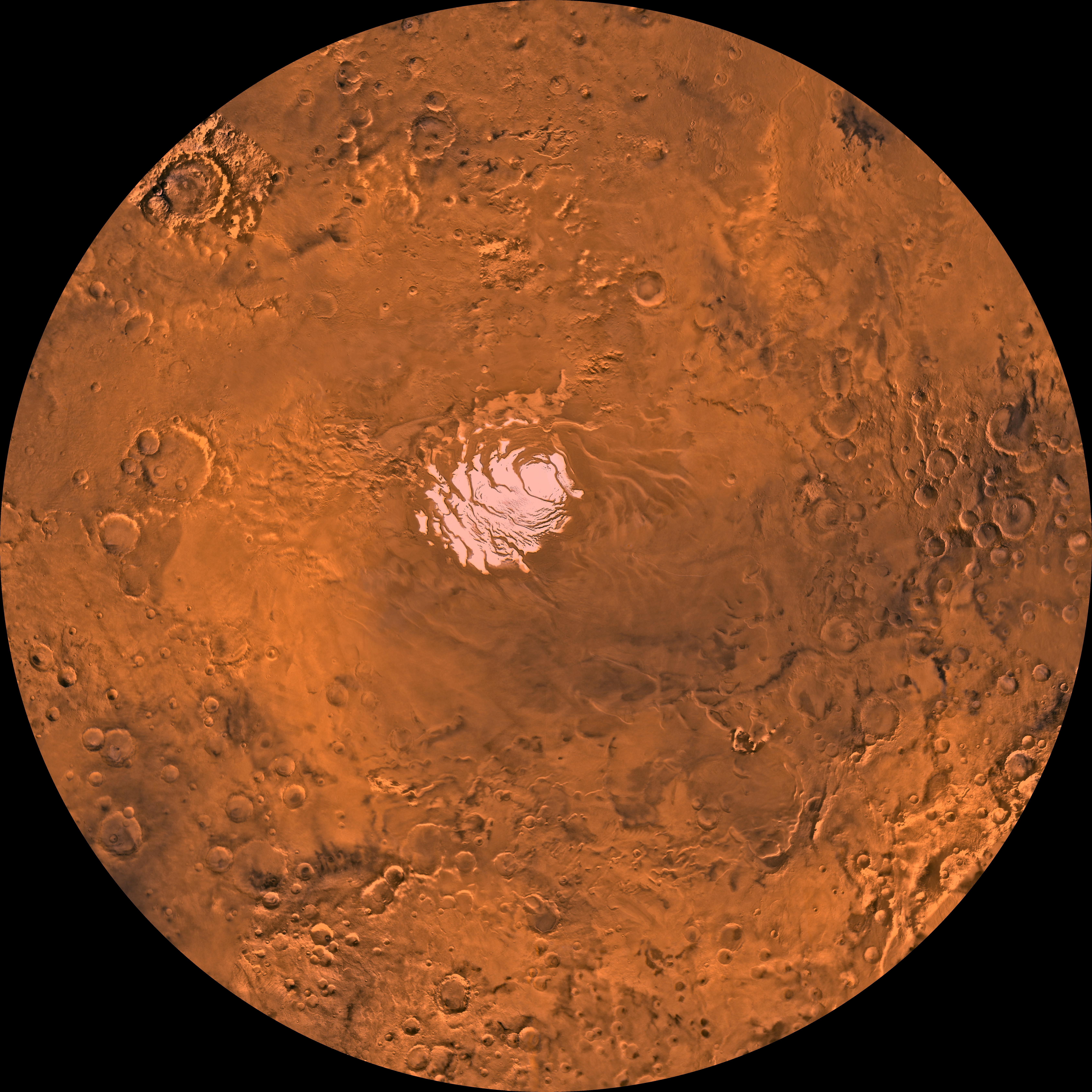 PIA00190: MC-30 Mare Australe Region Mars digital-image mosaic merged with color of the MC-30 quadrangle, Mare Australe region of Mars. The central part is dominated by a permanent residual ice cap that is enclosed by layered and troughed terrain. This cap is much smaller than the northern ice cap due to differing amounts of solar heating. The layered and troughed terrain is encircled by heavily and moderately cratered terrains that include unique depositional and erosional landforms, including large pits, troughs, and complex ridge systems. Latitude range -90 to -60 degrees, longitude range -180 to 180 degrees.